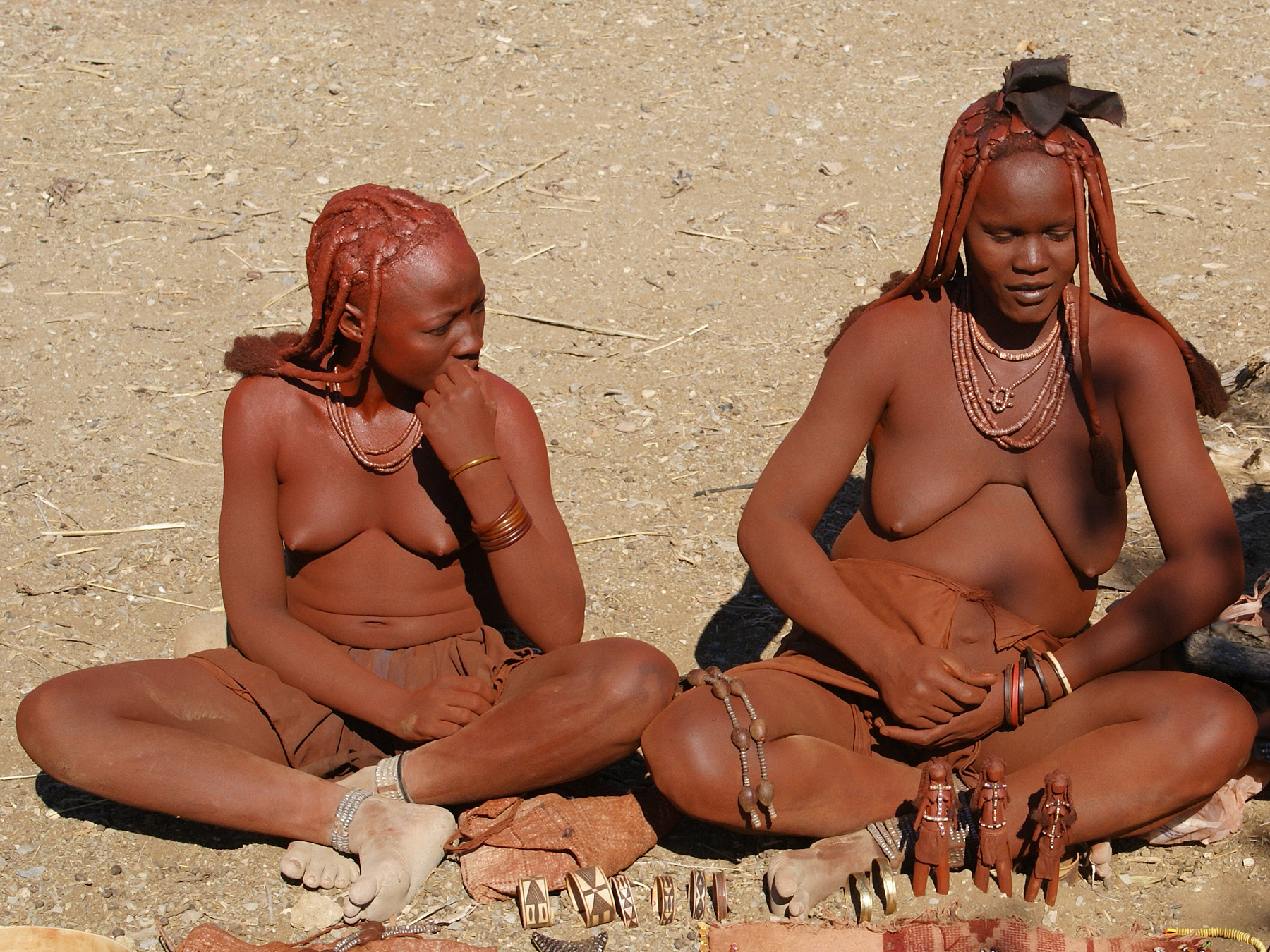 Himba ladies about 15 km north of Opuwo, Namibia.